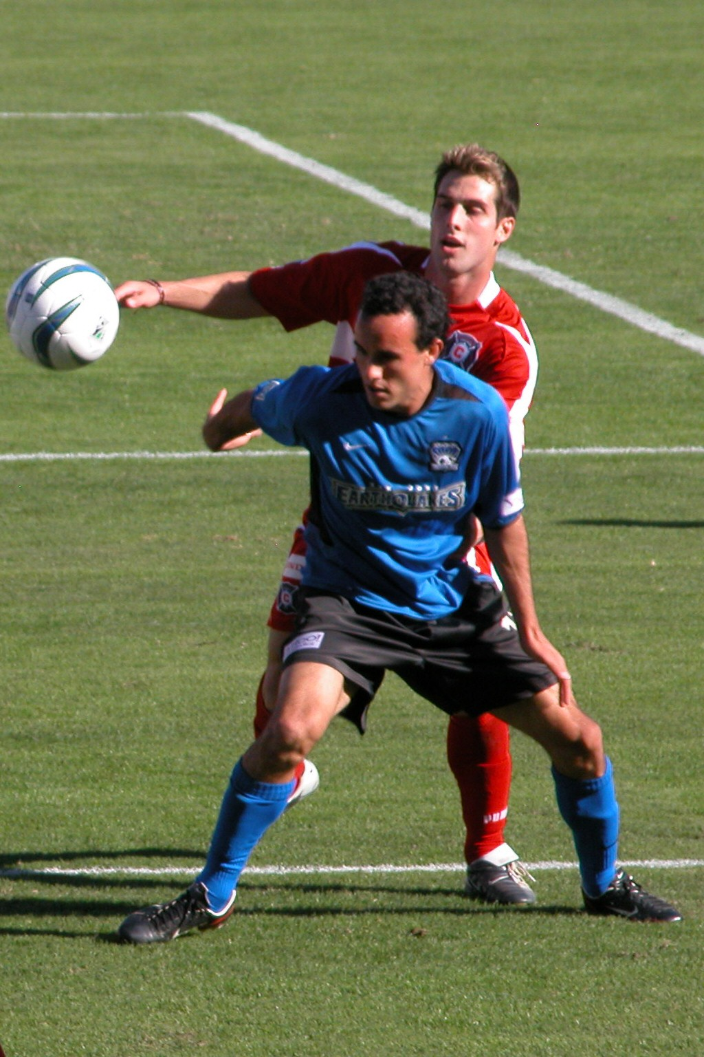 Landon Donovan fighting a ball against Carlos Bocanegra from a 2nd-row corner seat at MLS Cup 2003 at the Taken with a Nikon CoolPix 5700.